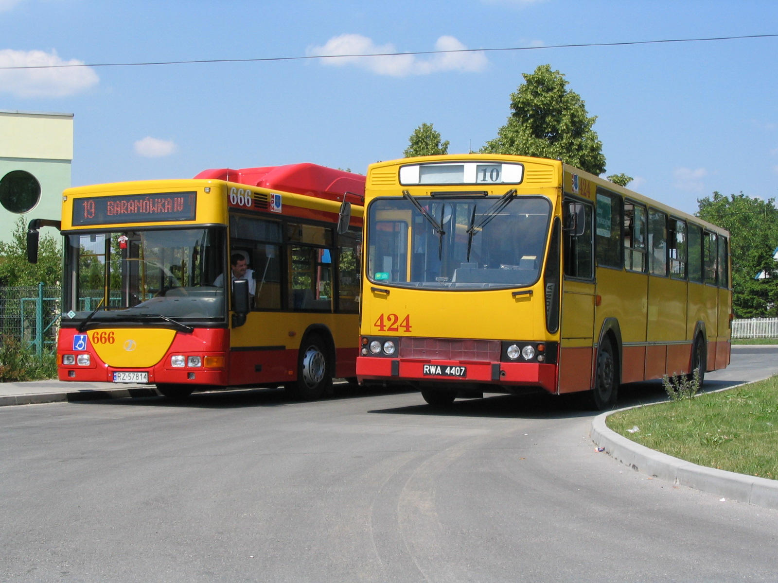 Jelcz M125M/4 Vecto CNG bus (#666, reg. RZ 57814, built 2006) and Jelcz PR110U bus (#424, reg. RWA 4407, built 1981), owned by MPK Rzeszów at Zalesie estate in Rzeszów, Poland.